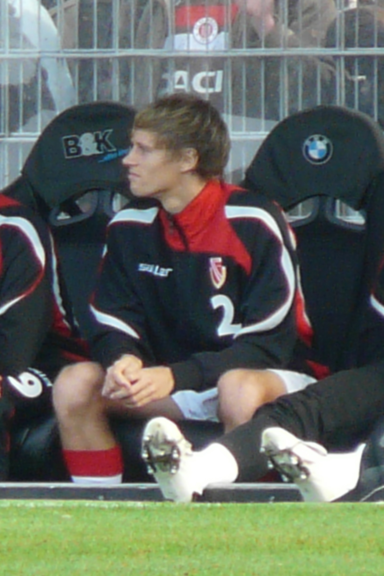 Thomas Franke as Player from Energie Cottbus